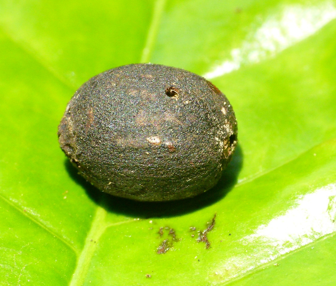 coffee berry with entry and exit holes of Hypothenemus hampei. Mudigere, Karnataka.